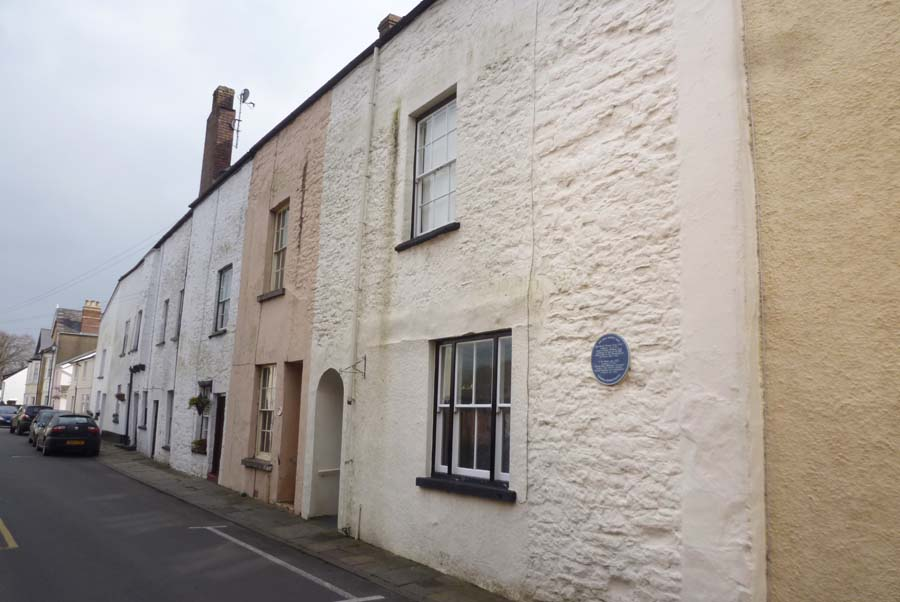 27 Old Market Street, Usk, a Grade II* listed building originally connected internally to the other houses in the terrace. On a back street of Usk, Monmouthshire, Wales.